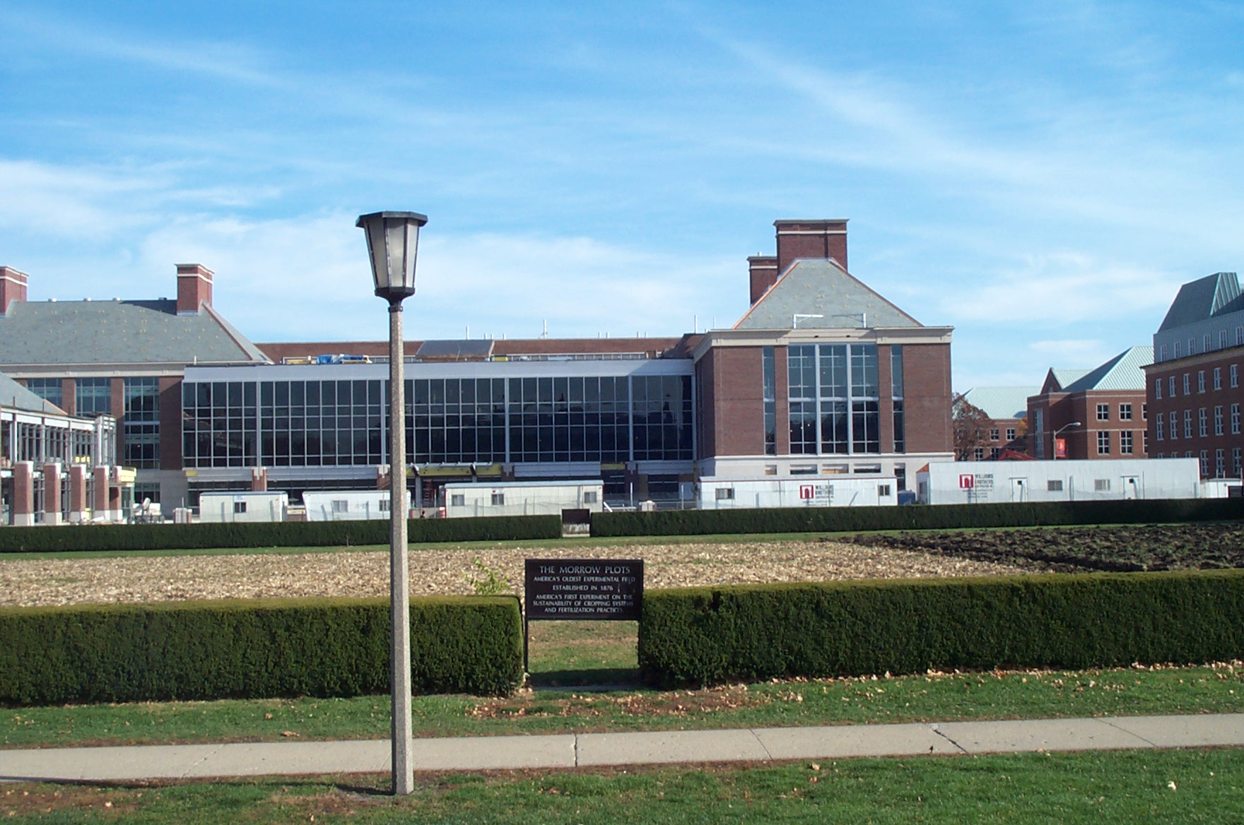 The Morrow Plots, with Bevier Hall in the background, on the campus of University of Illinois at Urbana-Champaign is America's oldest experimental field. Photograph taken 2005-11. Copyright © 2005 Kaihsu Tai. See also Image:UIUCMorrowPlots200511 CopyrightKaihsuTai rotated.jpg